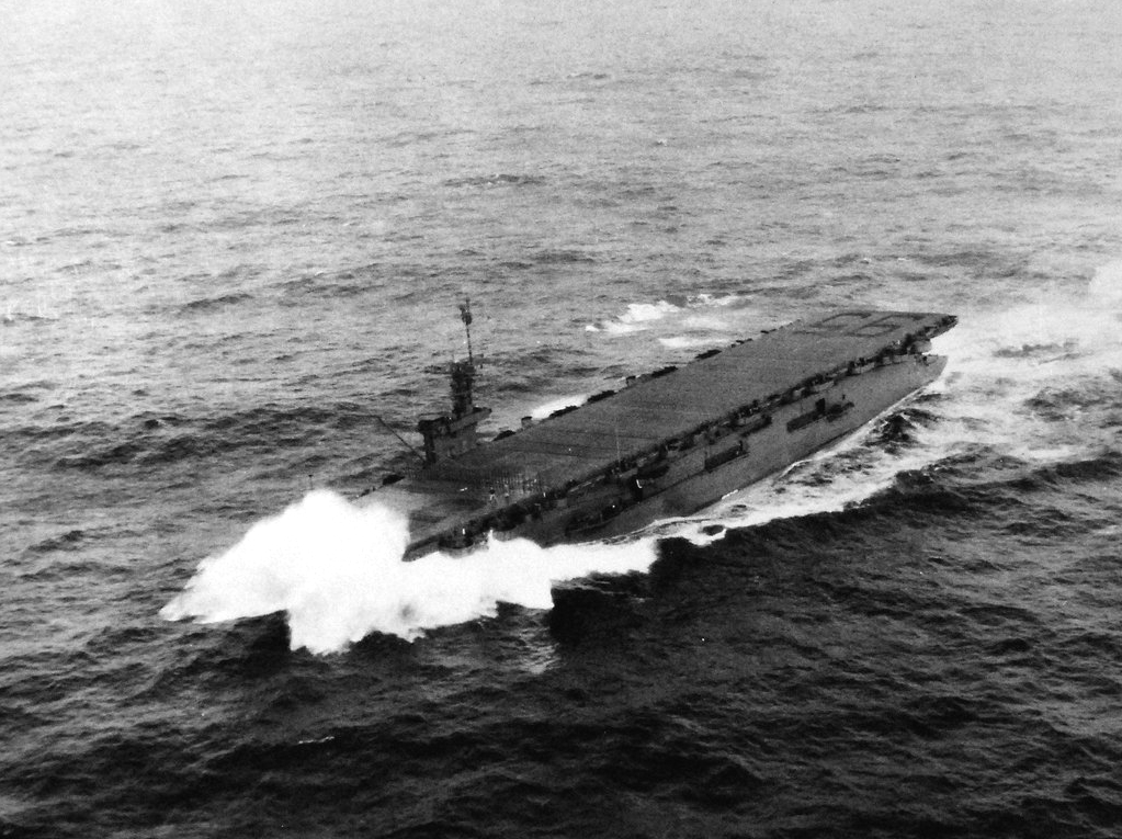 The U.S. Navy escort carrier USS Bismarck Sea (CVE-95) underway at sea on 24 June 1944.